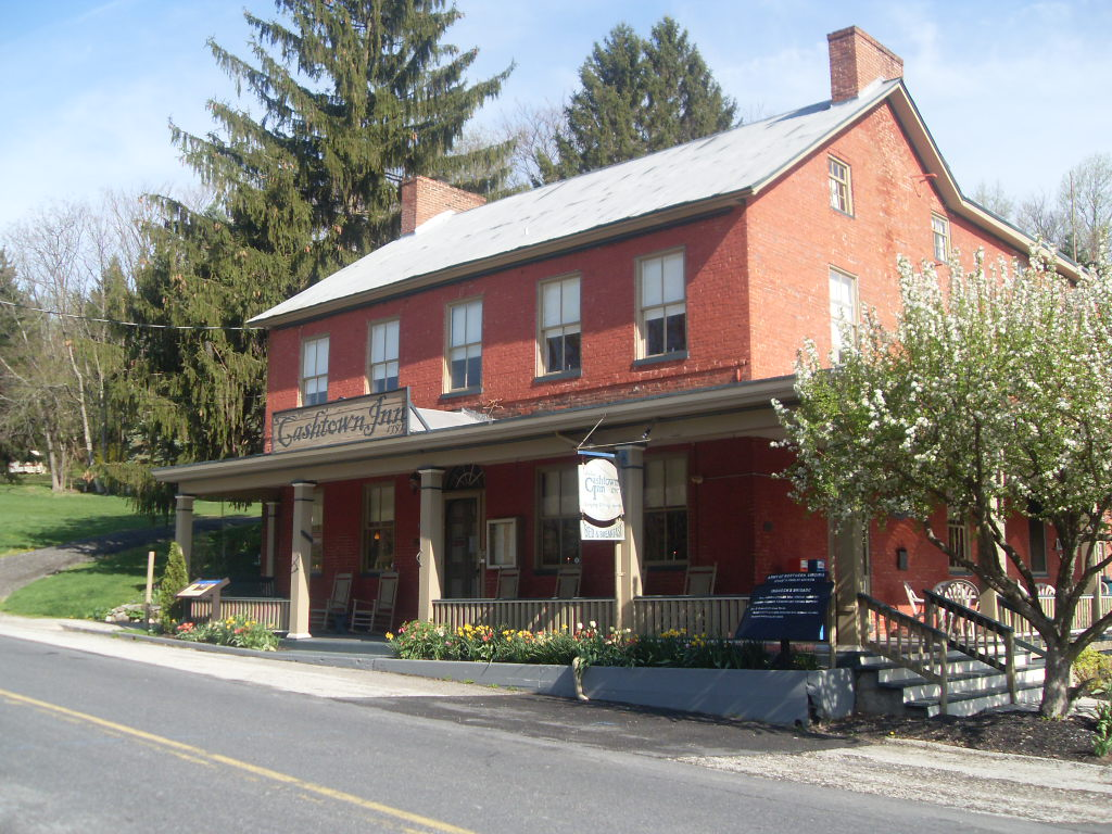 Cashtown Inn, present day